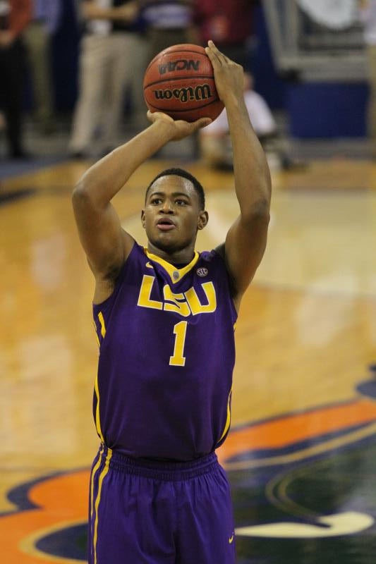 LSU's Jarell Martin vs Florida Gators 2015/01/20